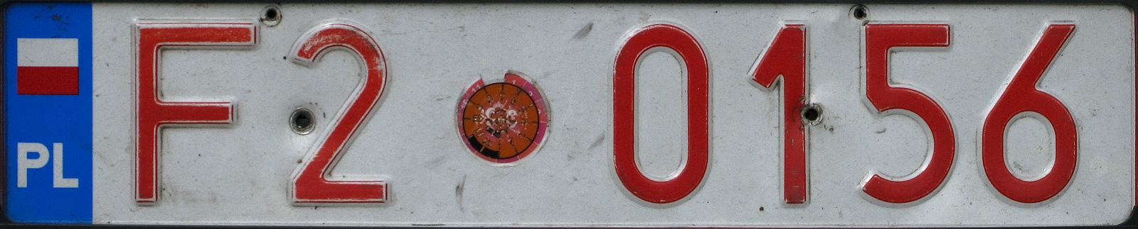 Polish temporary registration plate from 2000-2006. F - Lubuskie Voivodeship.